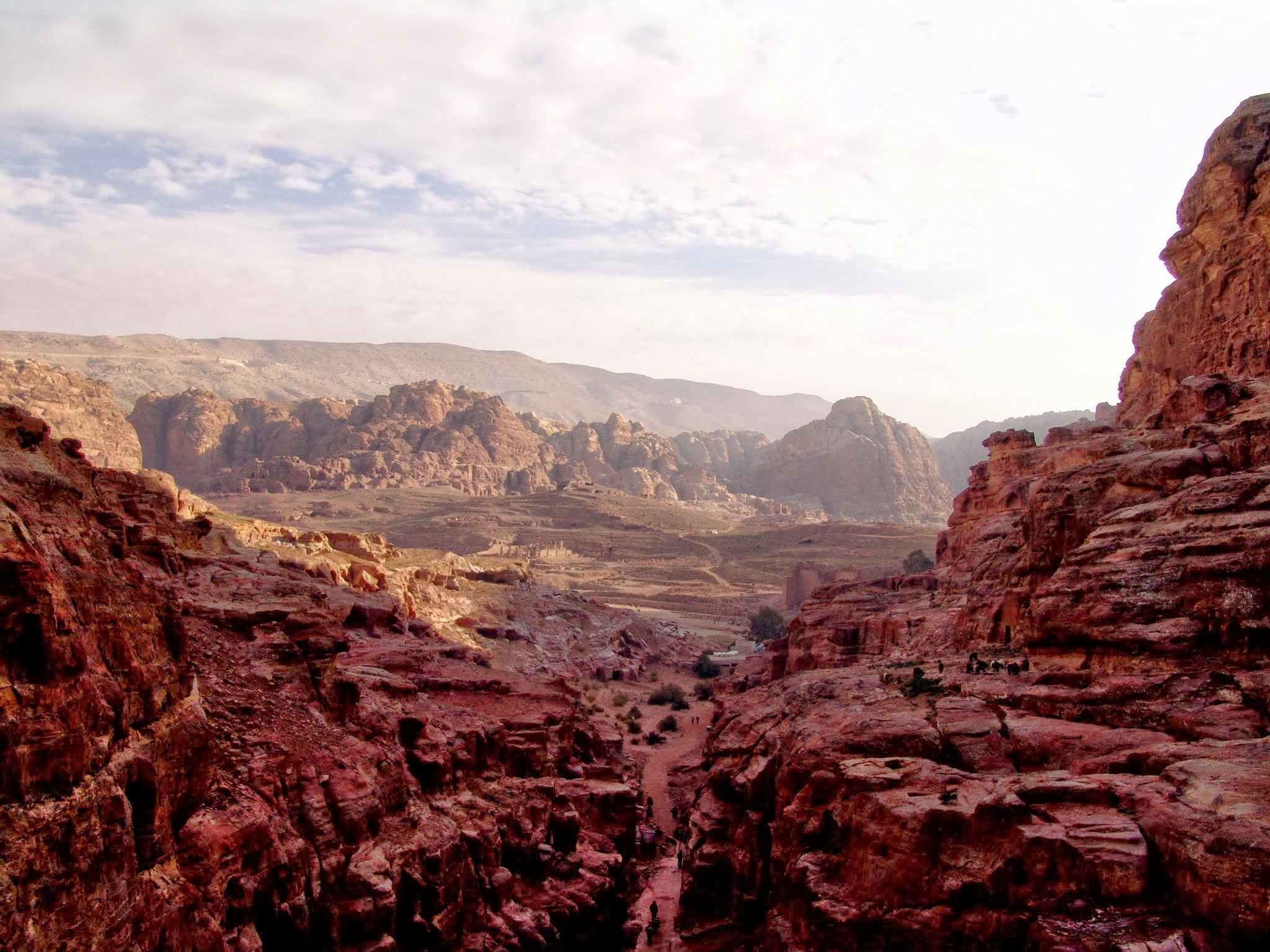 General view